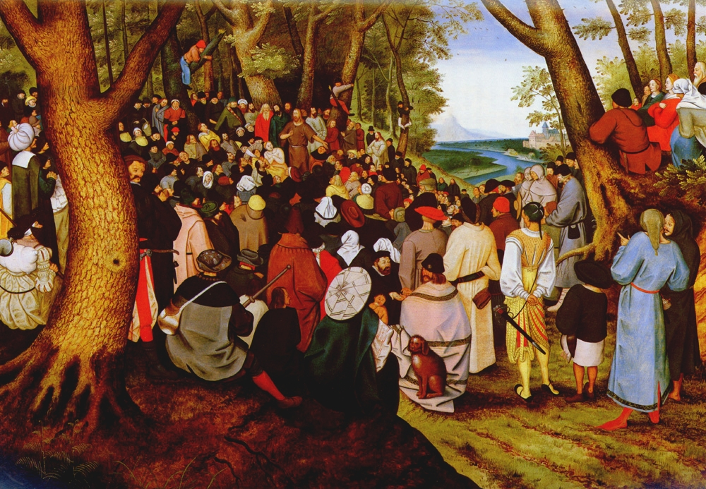 Landscape with St. John the Baptist preaching // Painting by Pieter Brueghel the Younger/ Rheinisches Landesmuseum, Bonn Similar composition to the one by Pieter Bruegel the Elder in Museum of Fine Arts, Budapest